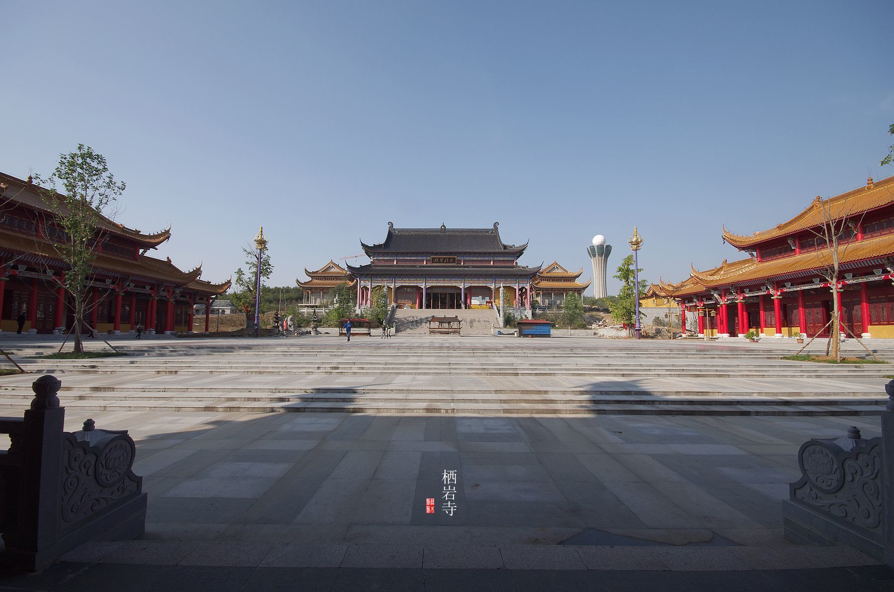 Xiyan Temple is Located in Anhui, Bengbu at the foot of the Mountain Awl.